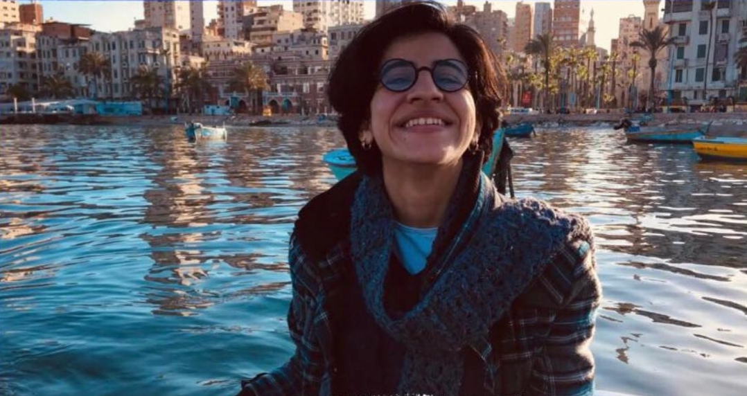 Sara Hegazy, Human rights activist from Egypt